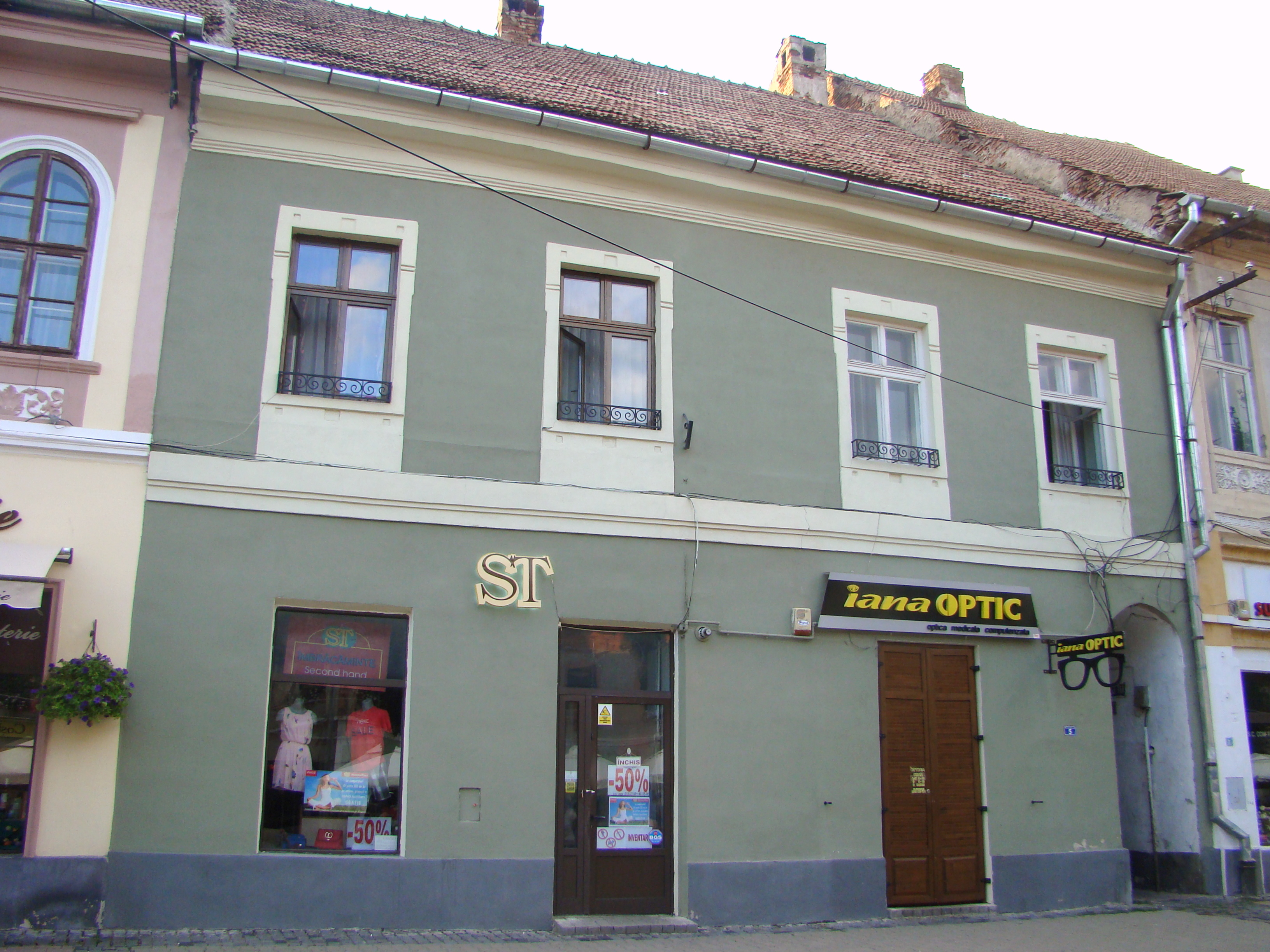 House, historic monument, in Bistrița, Liviu Rebreanu street 5